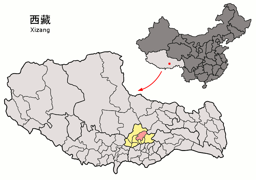 Location of Lhünzhub County (pink) and Lhasa prefecture (yellow) within Tibet (Xizang) autonomous region of China